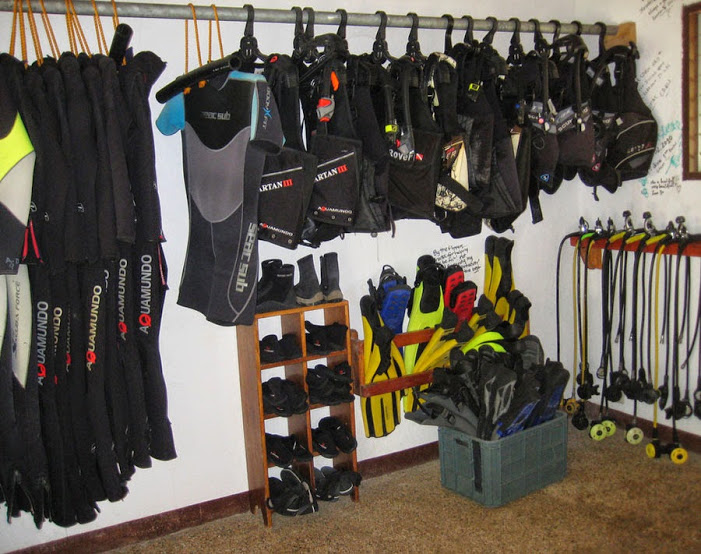 Diving equipment in the dive shop